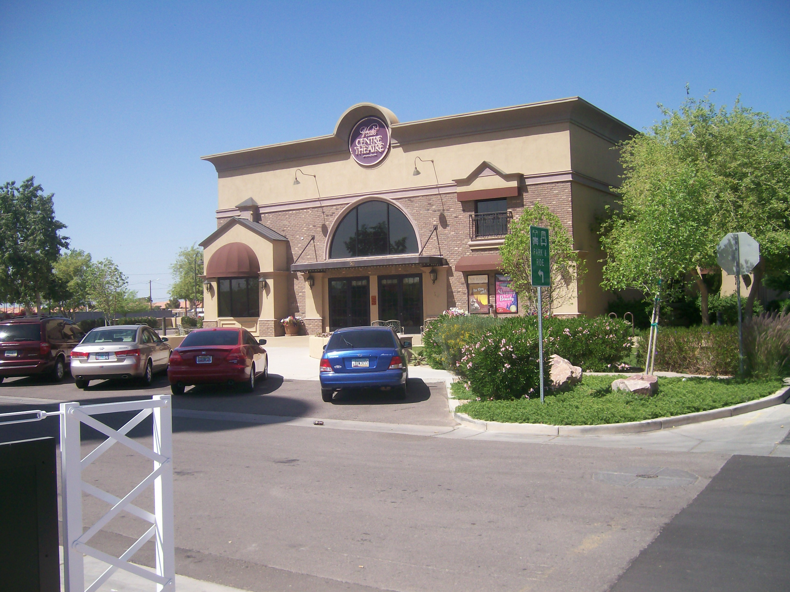 Photo of the Hale Centre Theatre from the South side of Page Ave